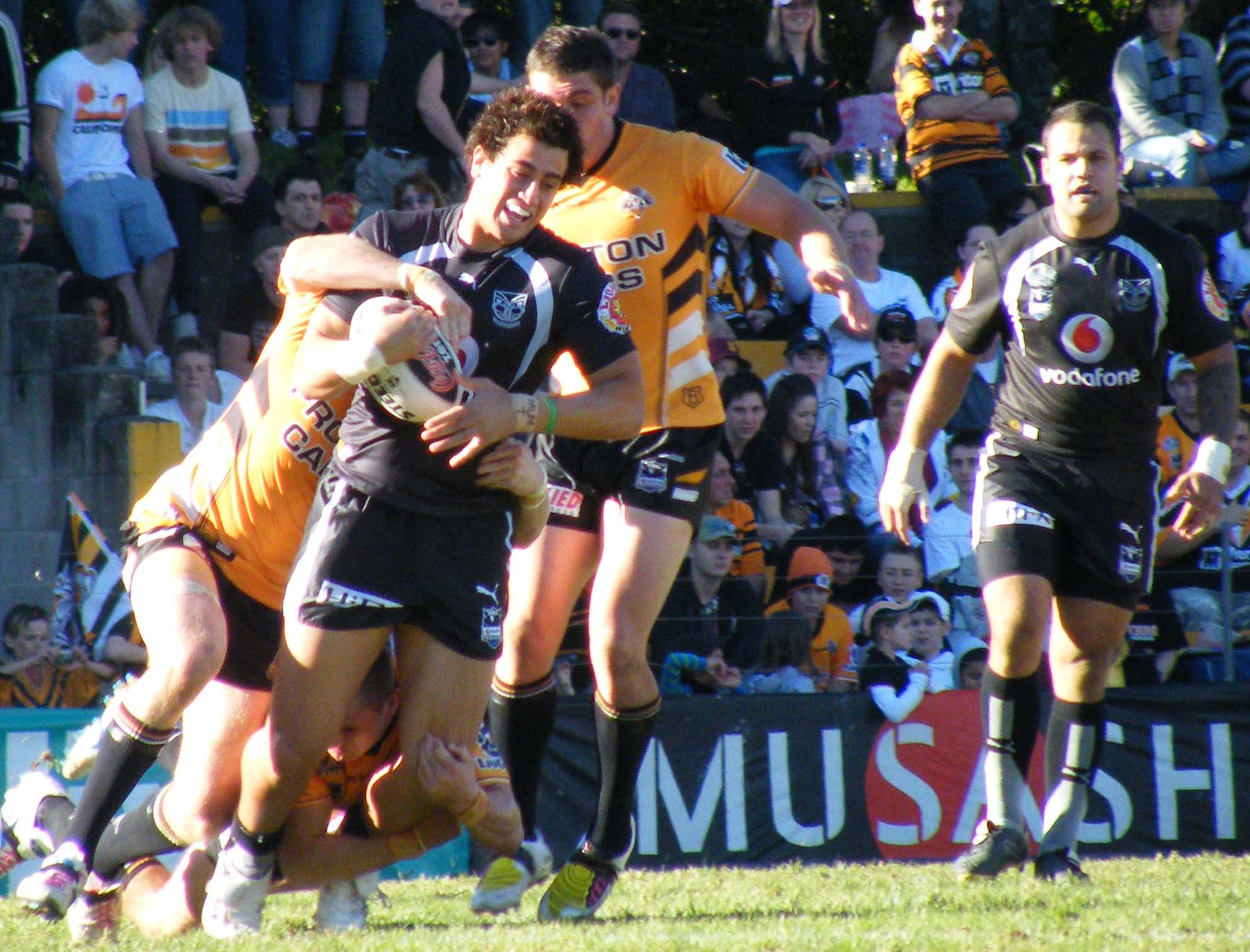 New Zealand Warriors loose forward Ben Matulino takes on the Tiger's defence.